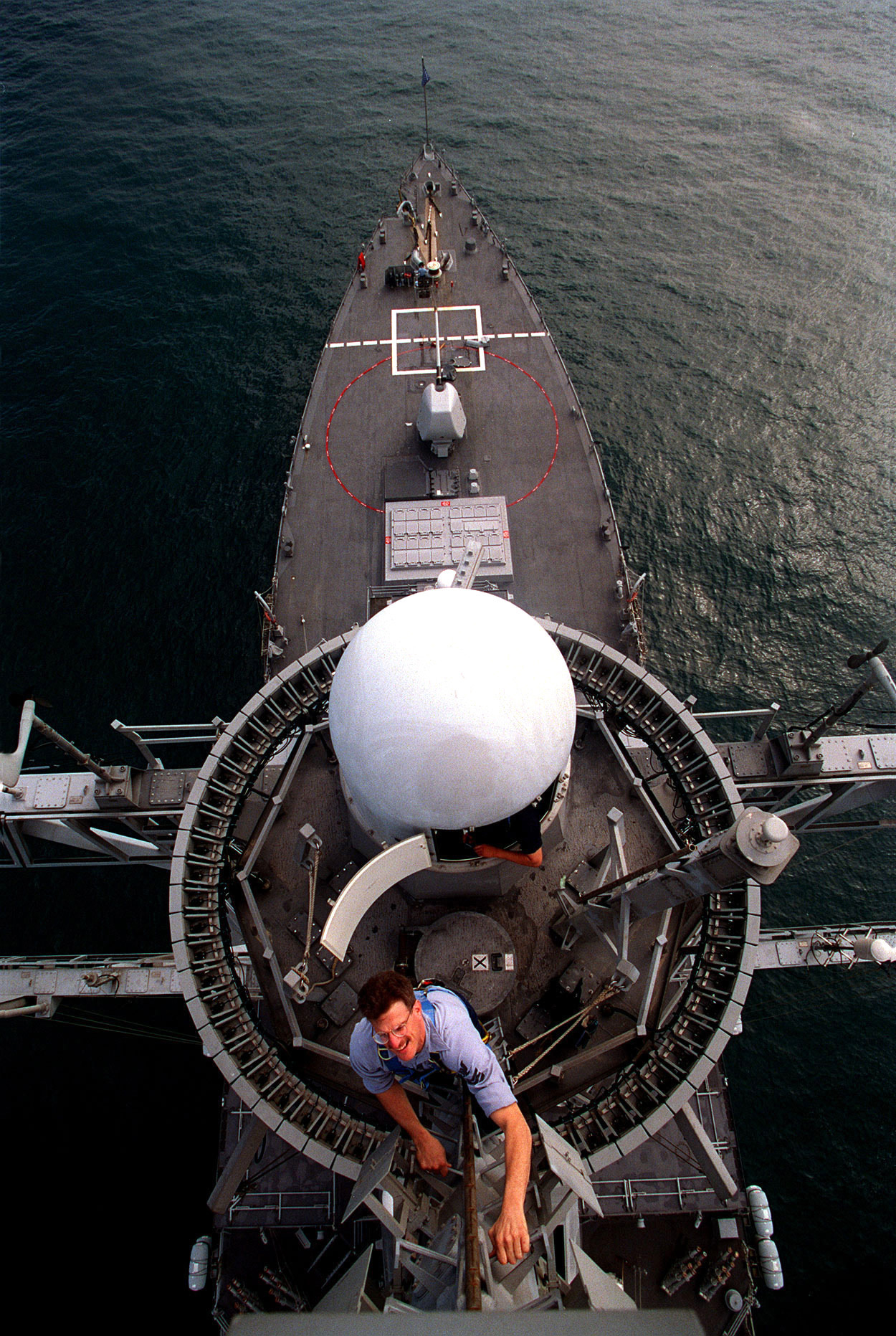 980221-N-4142G-015 At sea aboard USS Carney (DDG-64) en:21 February, en:1998 -- Electronics Technician 1st Class Mark Caprio from Jacksonville, Florida, checks radar equipment high above the guided missile destroyer weather deck. Carney is currently deployed to the Persian Gulf in support of Operation Southern Watch. U.S. Navy photo by Photographer's Mate 2nd Class Photo Felix Garza. (RELEASED) Source [1]